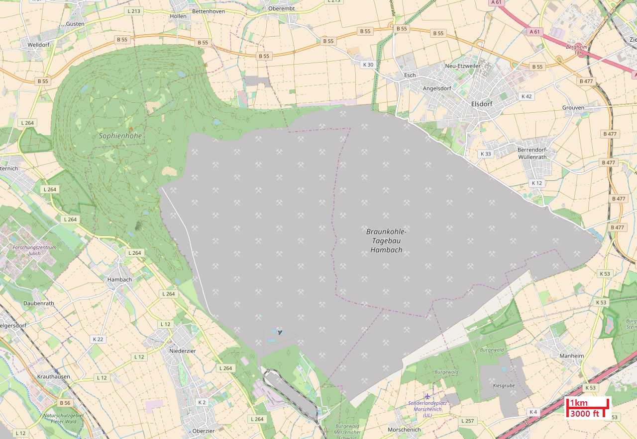 2017 map of Hambach surface mine and Hambach Forest This map of Germany was created from OpenStreetMap project data, collected by the community. This map may be incomplete, and may contain errors. Don't rely solely on it for navigation.